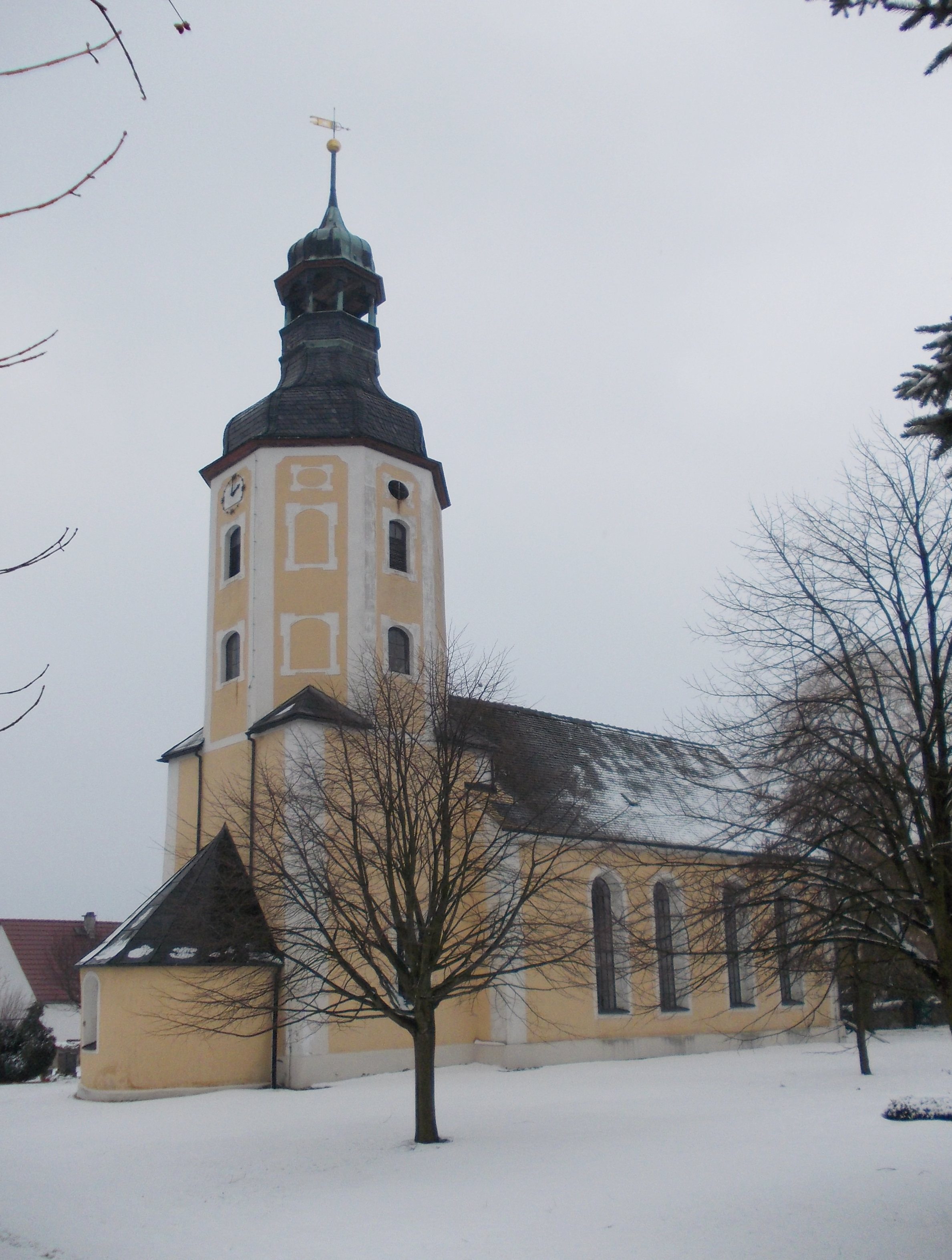 Mary Magdalene Church in Lauterbach (Bad Lausick, Leipzig district, Saxony)